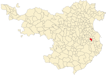 Serra de Darò